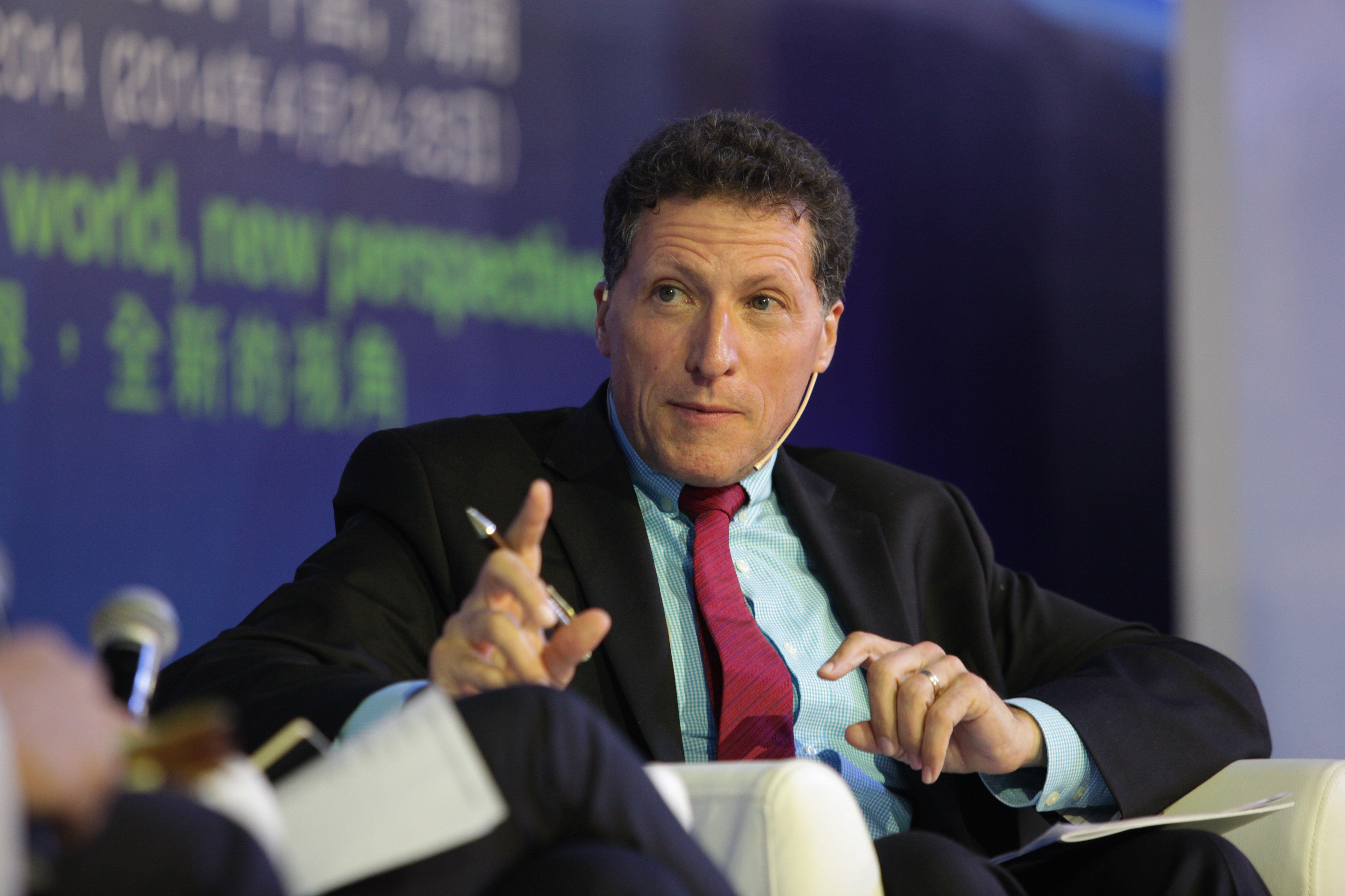 Arnie Weissmann, Editor in Chief, Travel Weekly World Travel & Tourism Council Flickr images